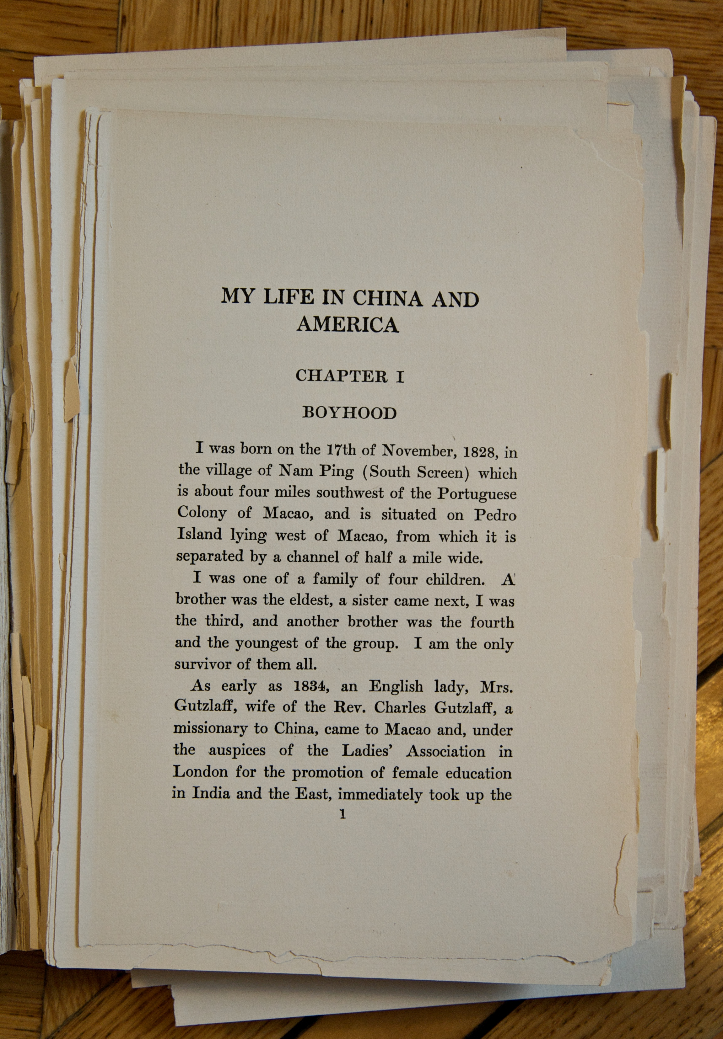 My Life in China and America by Yung Wing, published by Henry Holt & Co., New York, 1909. The picture taken at the New York Public Library Rose Main Reading Room shows a fragile copy of this book rebound years ago, with a great many loose pages.